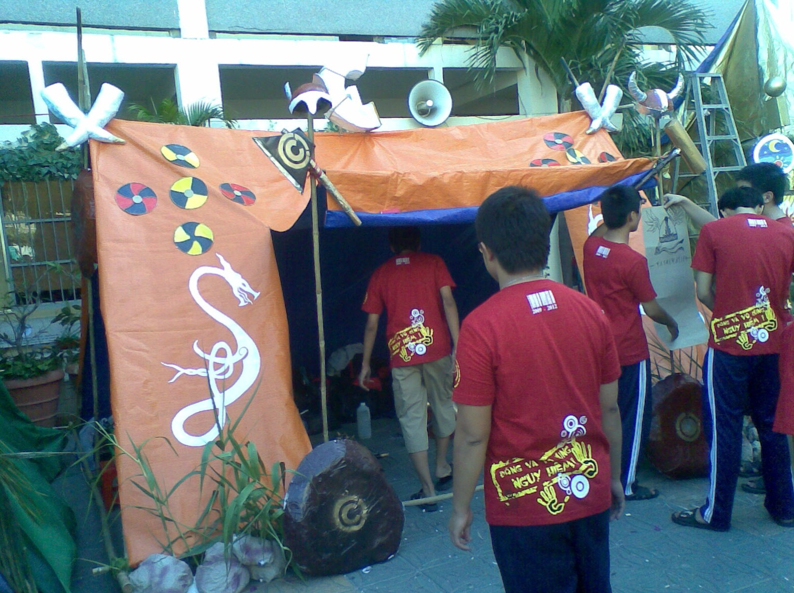 The 13th annual camp for student of GiaDinh highschool Vietnam 2012